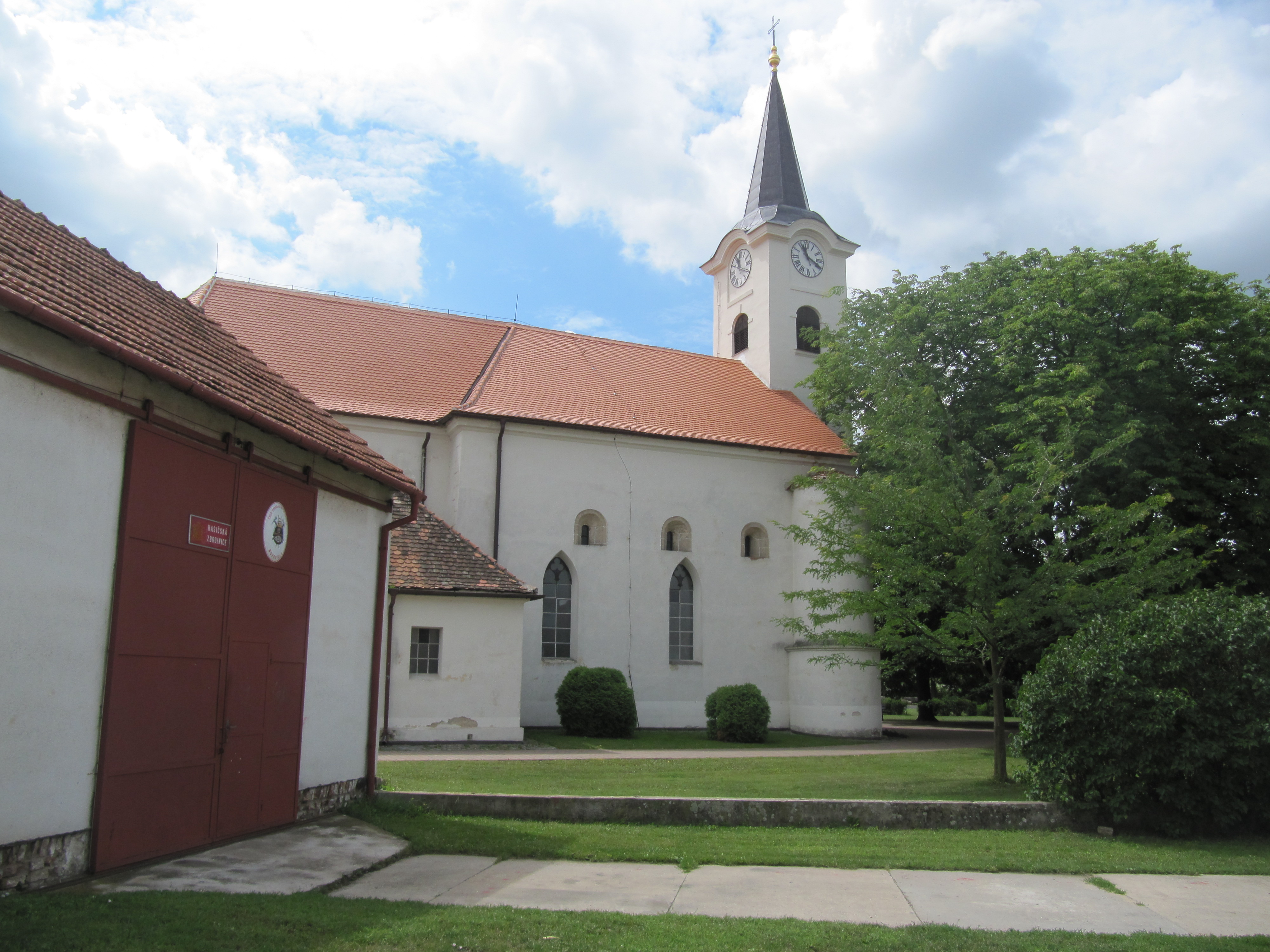 Novosedly in Břeclav District, Czech Republic. Church of St. Ulrich.